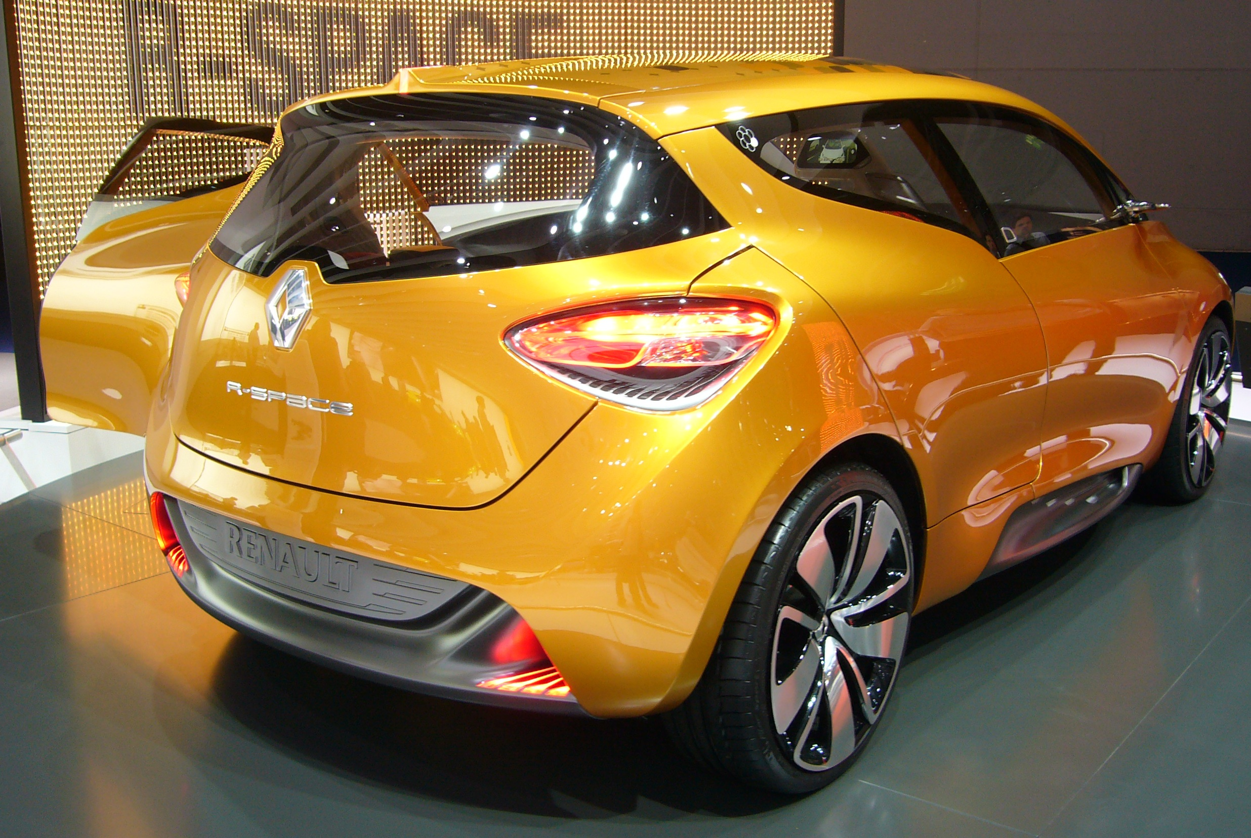 Renault R-Space Concept at IAA Frankfurt 2011